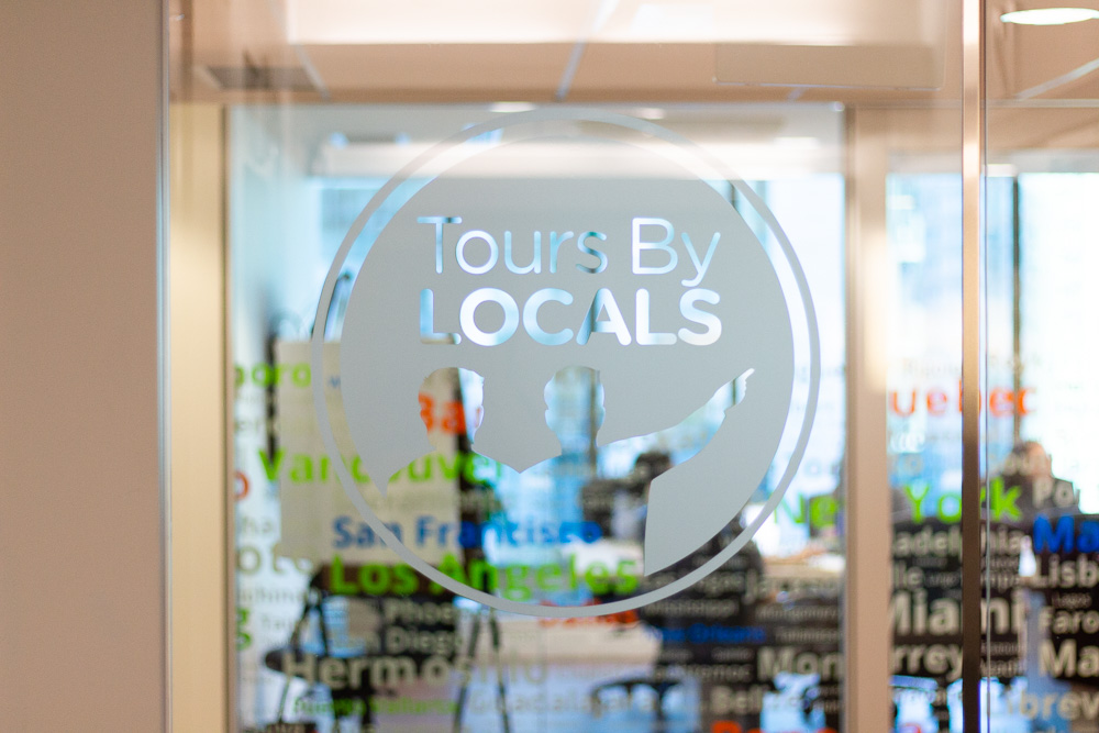 Interior of ToursByLocals office headquarters in Vancouver, BC, with boardroom in background